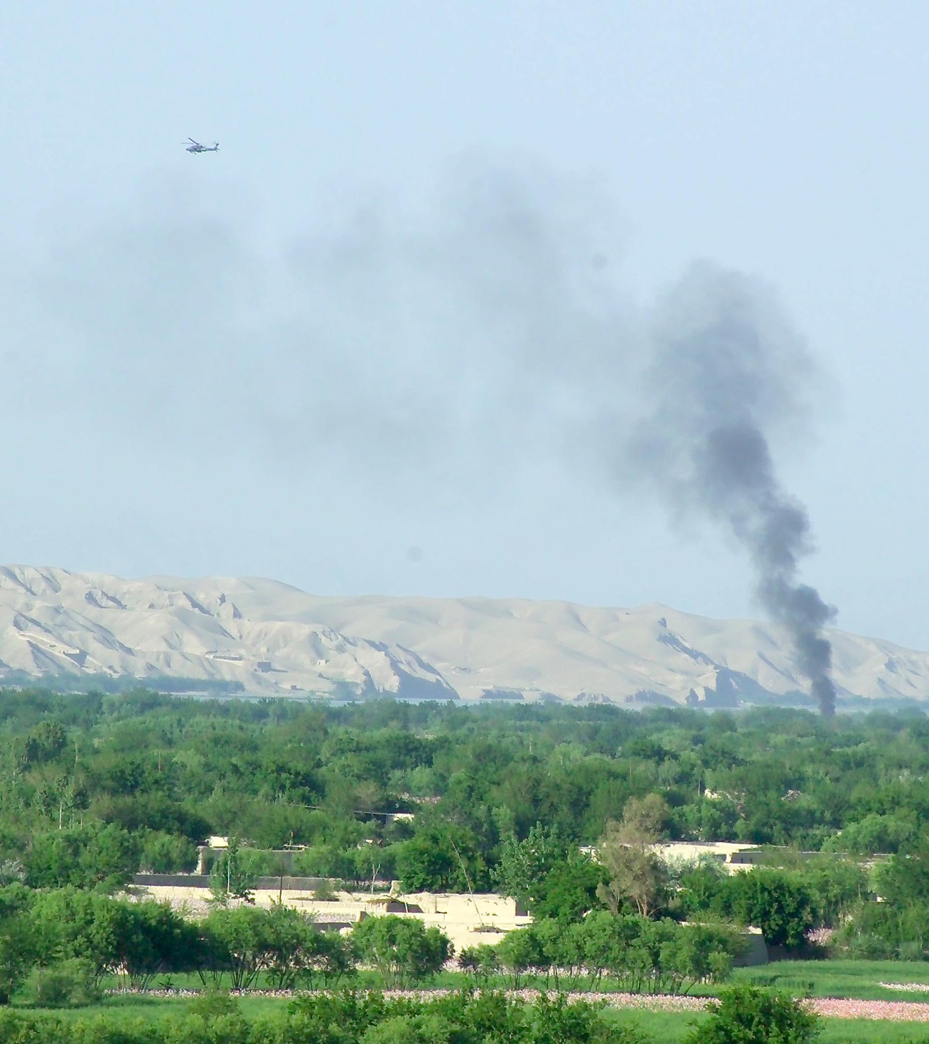 A plume of smoke begins to fill the sky in the far distance as coalition forces fire artillery rounds at identified Taliban fighting positions on the edge of the Sangin District Center area